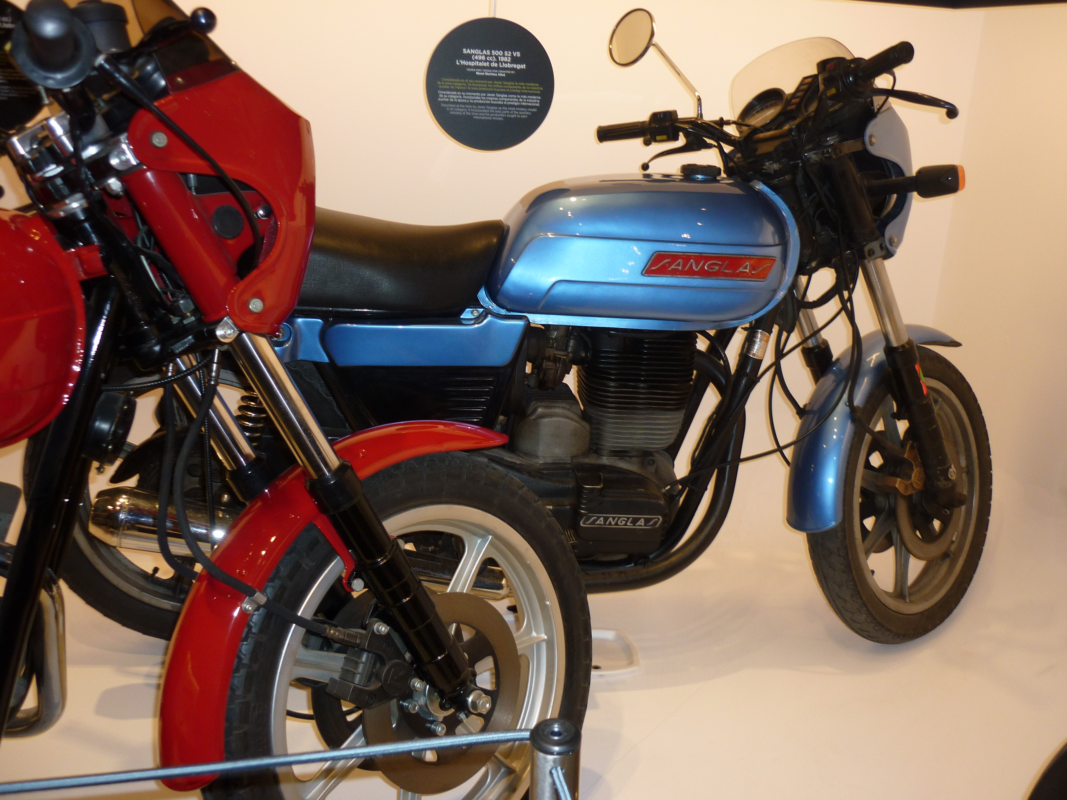 In blue: Sanglas 500 S2 V5 (496 cc), 1982